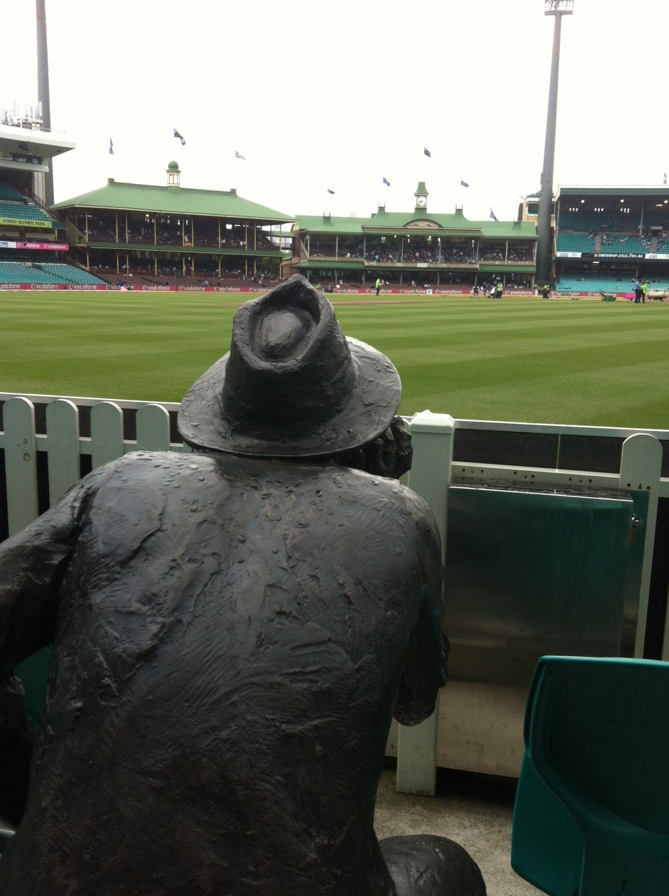 Bronze statue of Stephen Harold Gascoigne, better known as "Yabba", in the Victor Trumper Stand at the Sydney Cricket Ground, Sydney Australia. View from the rear showing the view across the pitch.